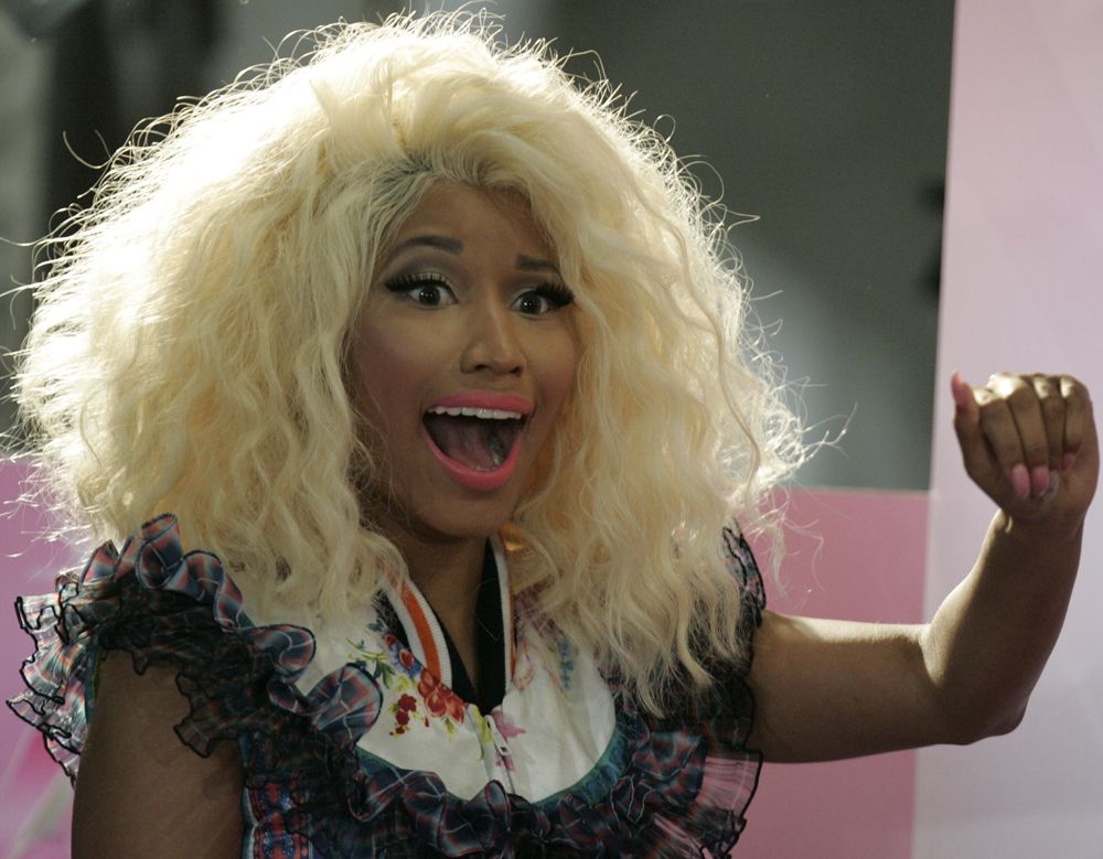 Nicki Minaj Launches Pink Friday Perfume 2012 - Sydney, Australia.